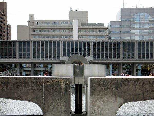 This is a picture of the Peace Flame with the Peace Memorial Museum in the background in Hiroshima, Japan.